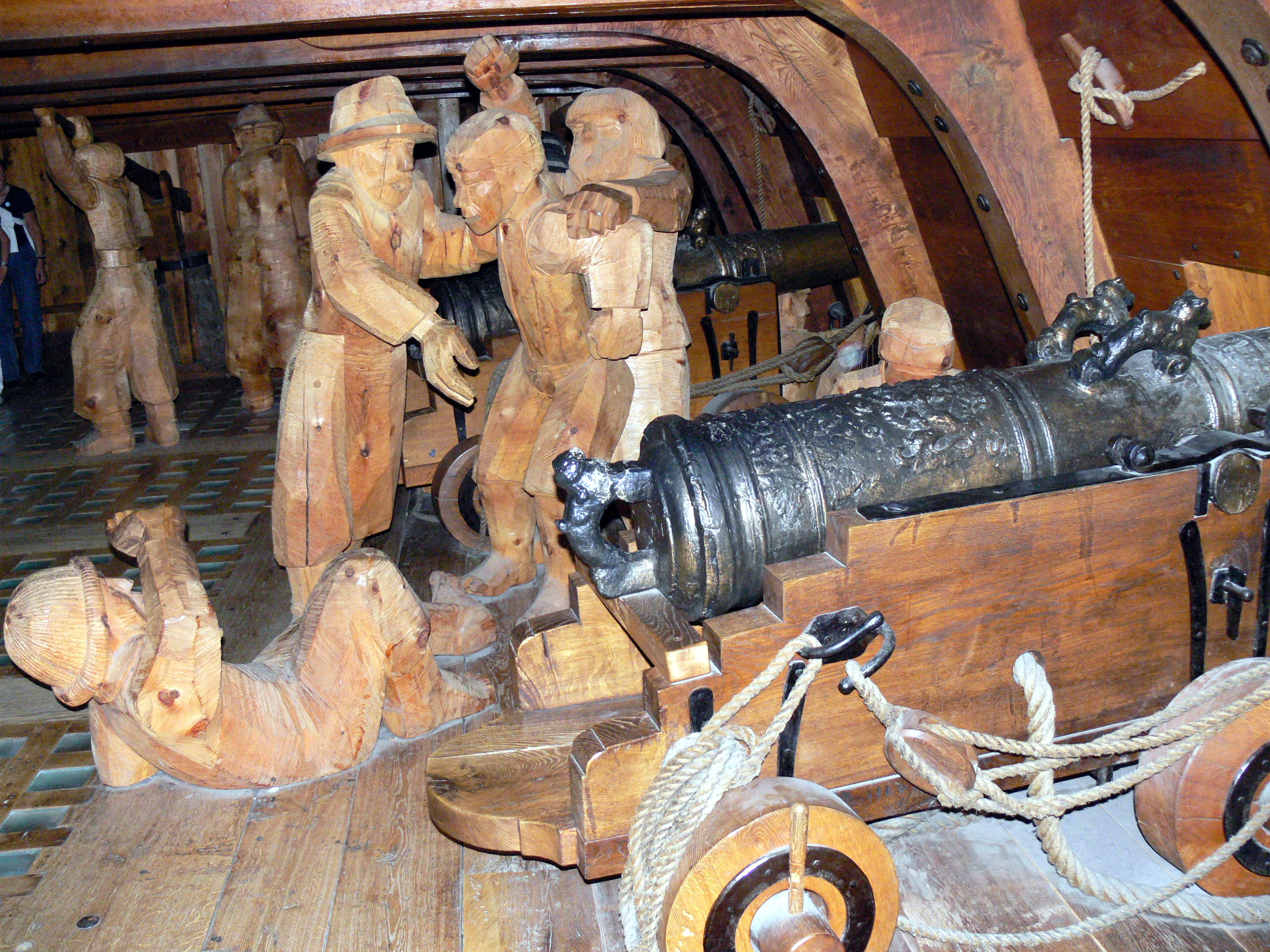 Vasa ship ( 1627 ). Life-size reconstruction of the battery deck.